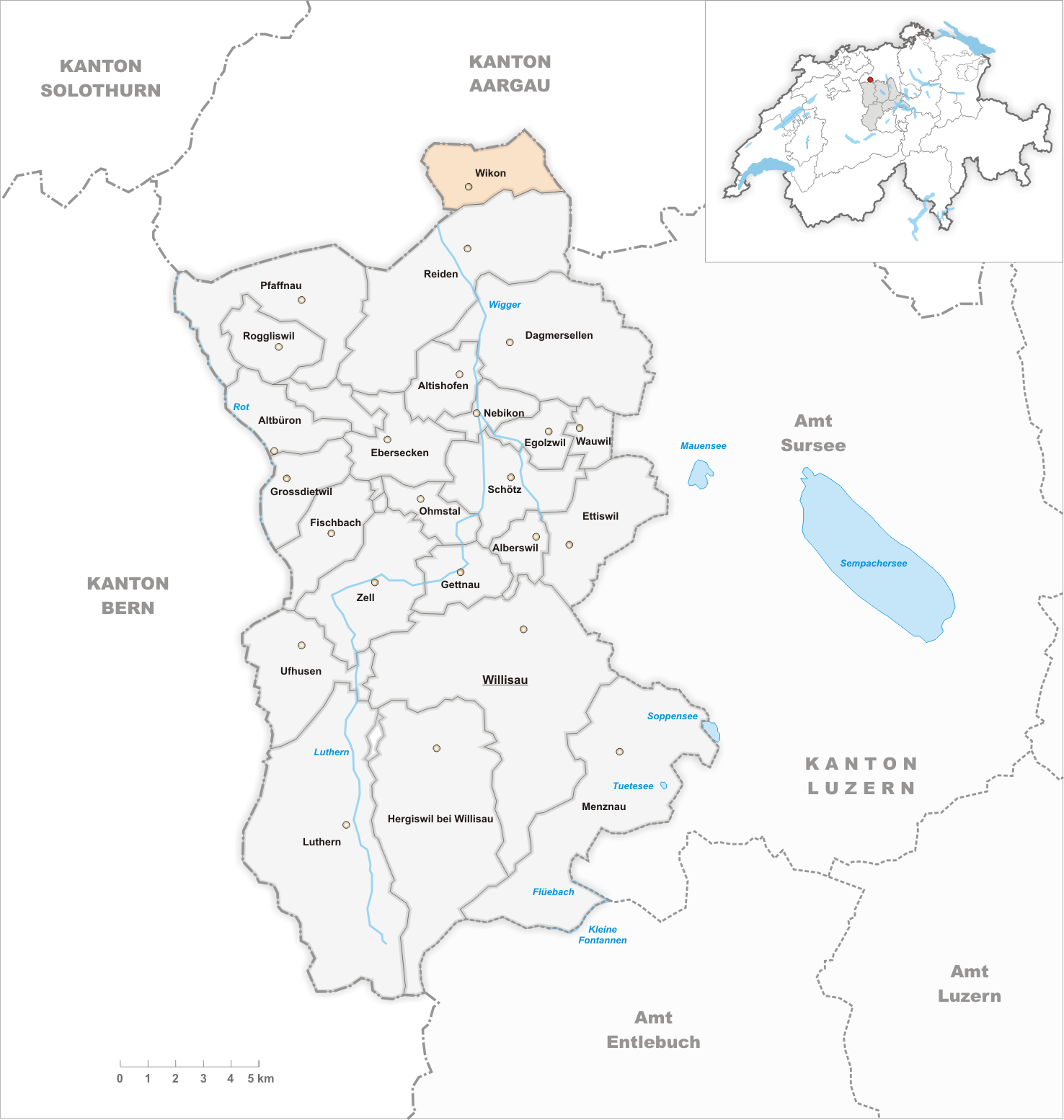 Municipality Wikon